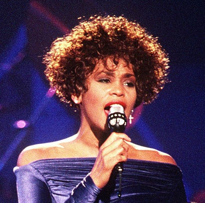 Whitney Houston performing "Greatest Love of All" during the HBO-televised concert "Welcome Home Heroes with Whitney Houston" honoring the troops, who took part in Operation Desert Storm, their families, and military and government dignitaries.